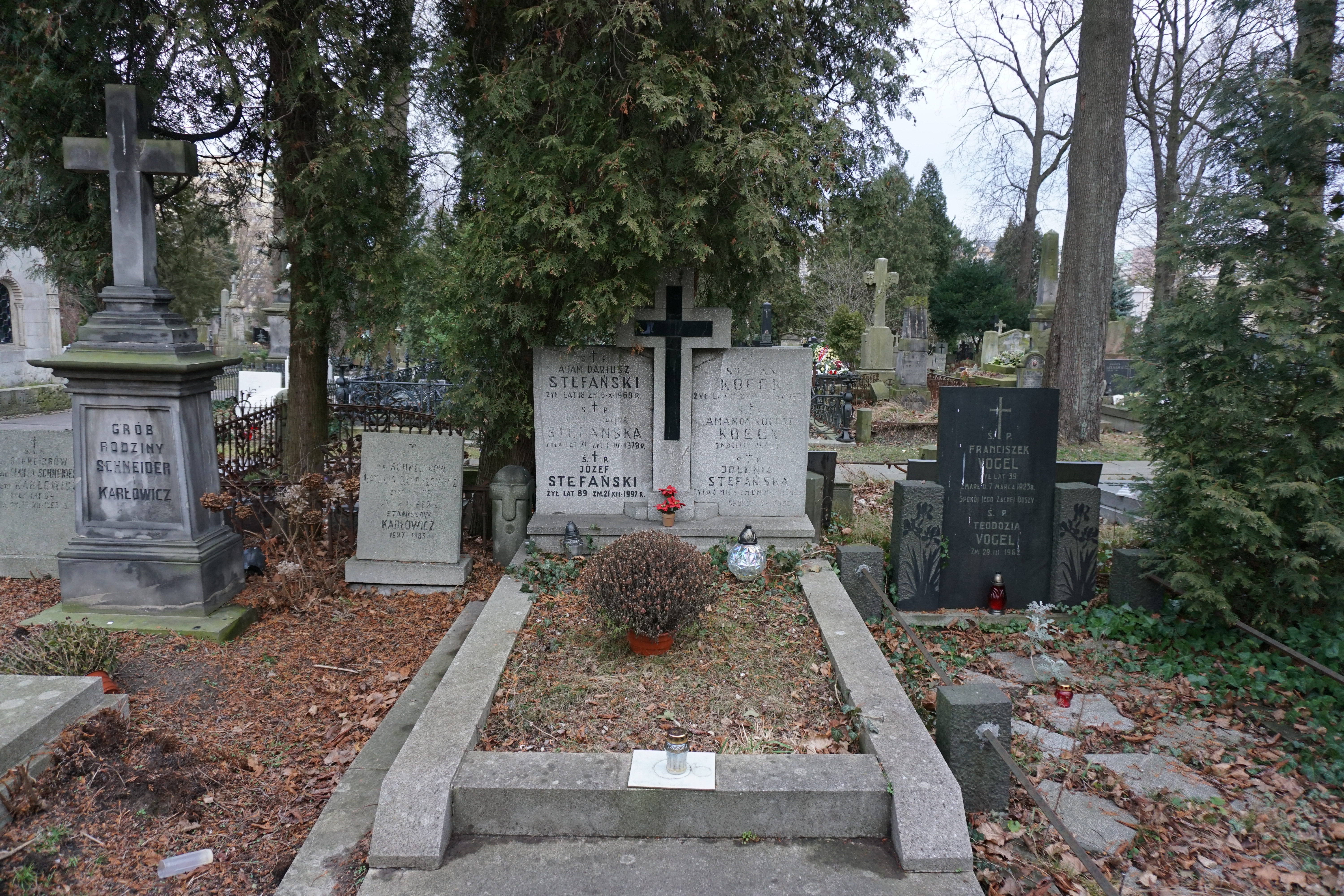 The grave of Józef Stefański at the Lutheran cemetery in Warsaw (avenue 22, grave 7)